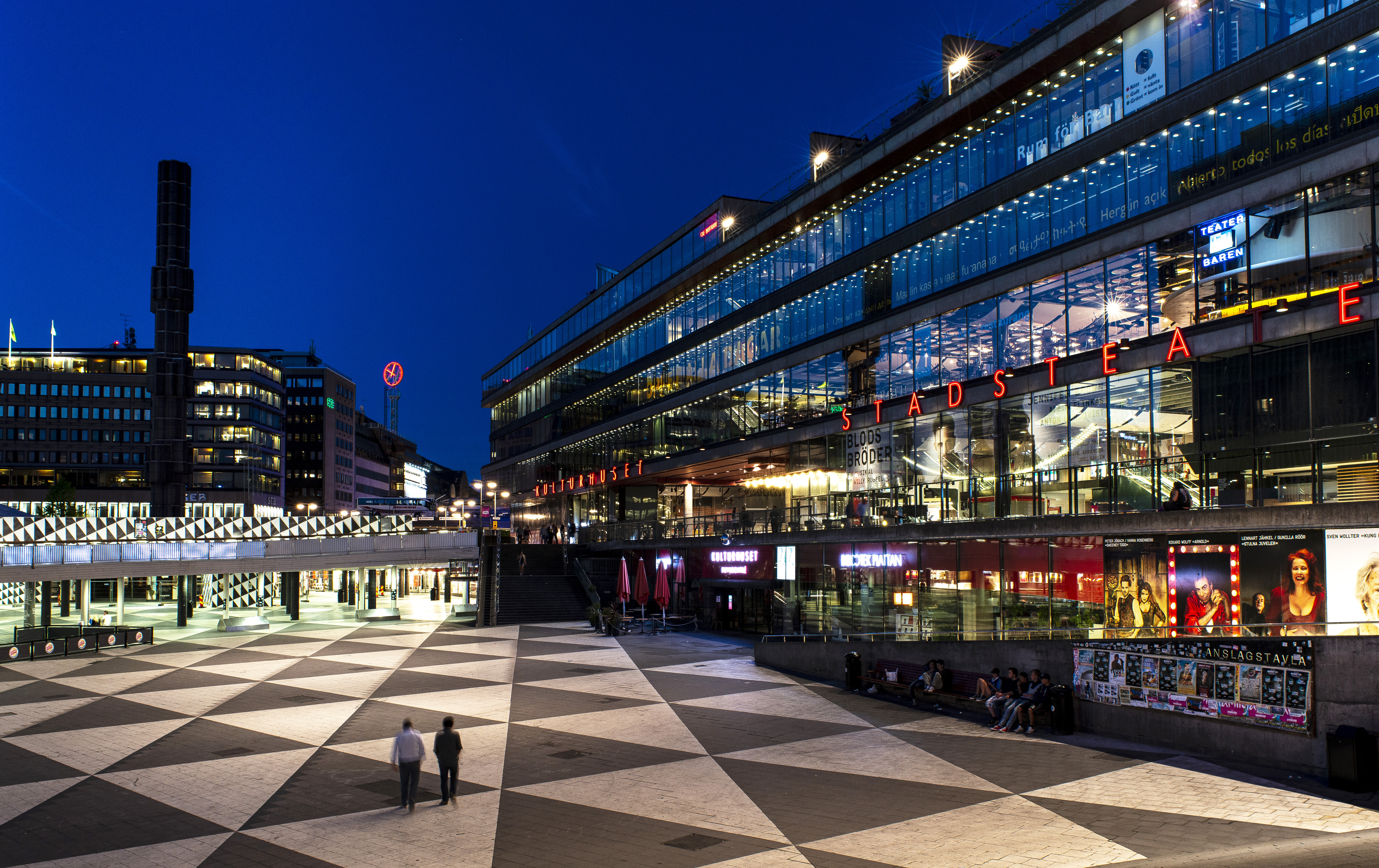 FOTOGRAFI: Kulturhuset -FOTOGRAF: Stigholt, Johan.BILDNUMMER:Stadsmuseet i Stockholm